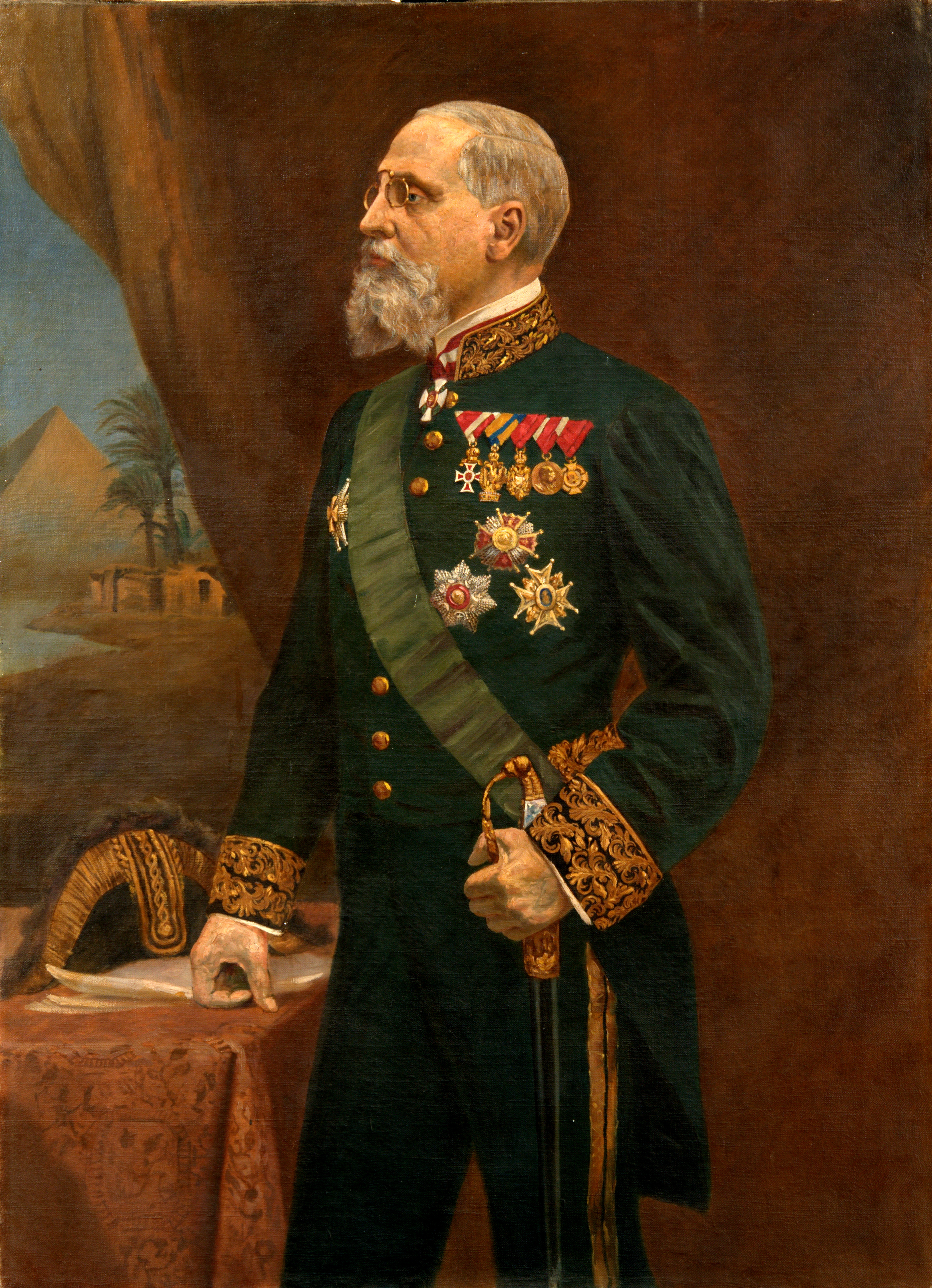 Coloured copy of the painting by the Moravian painter Karel Žádník (1847-1929), made in Bilowitz in 1912 of Count Hugo II Logothetti. The painting was till May 1945 at the family manor in Bilowitz and is now in possession of the Slovacké Muzeum, Uherské Hradiště.Nikon D300 + AF-S Micro Nikkor 60mm f/2.8G ED